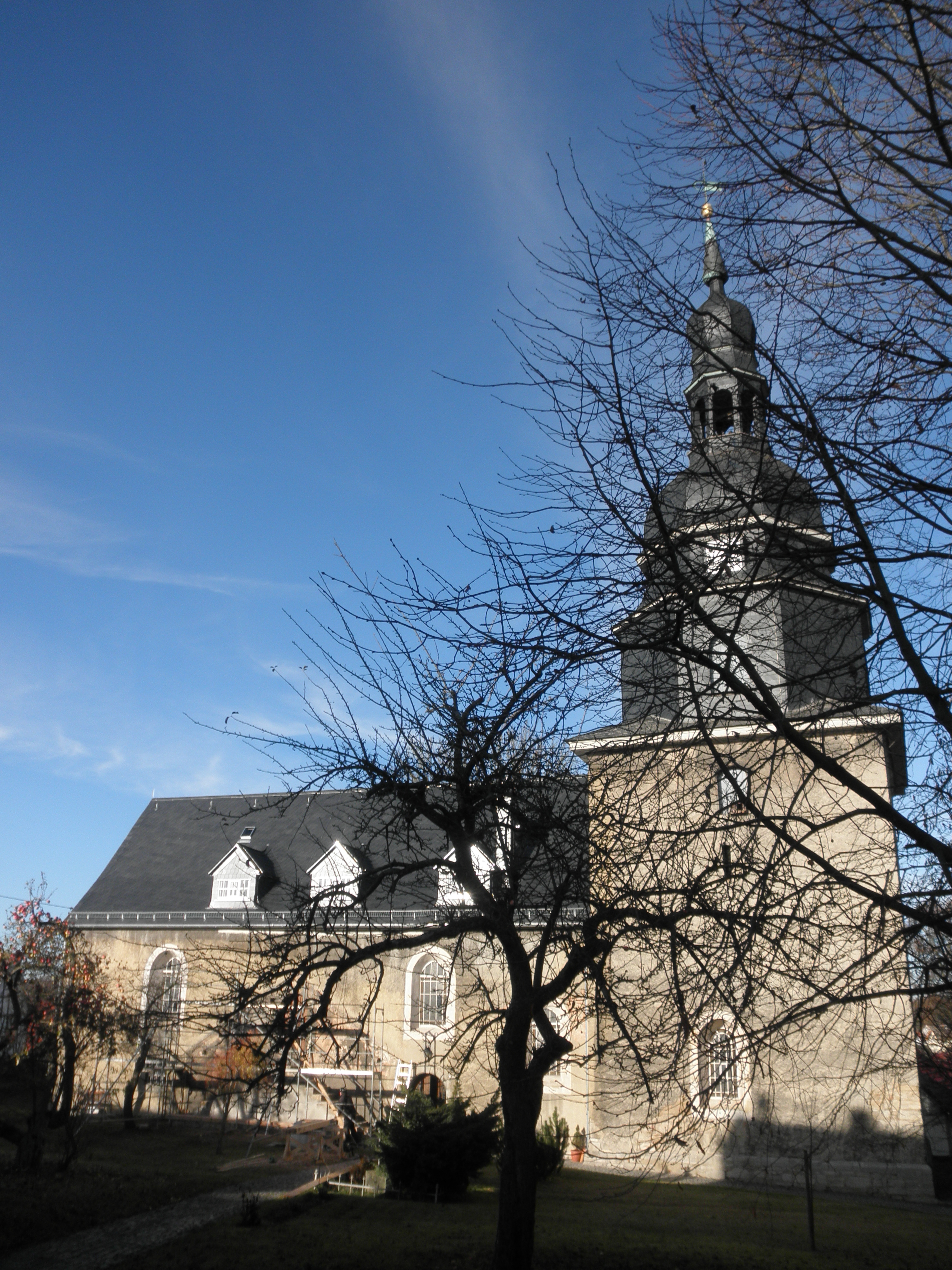 Church in Holzthaleben in Thuringia